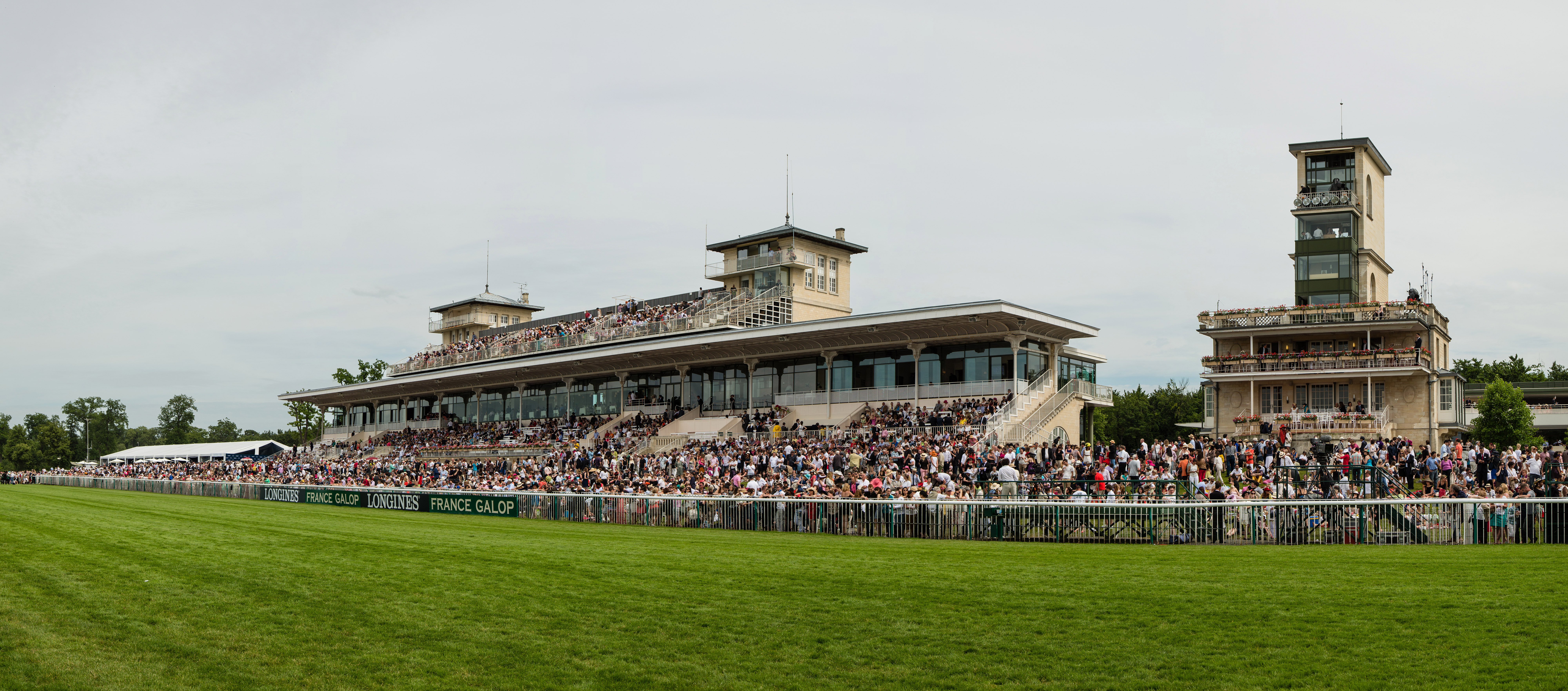 A panoramic view of the Chantilly Racecourse at the 2013 Prix de Diane, in Chantilly, France.